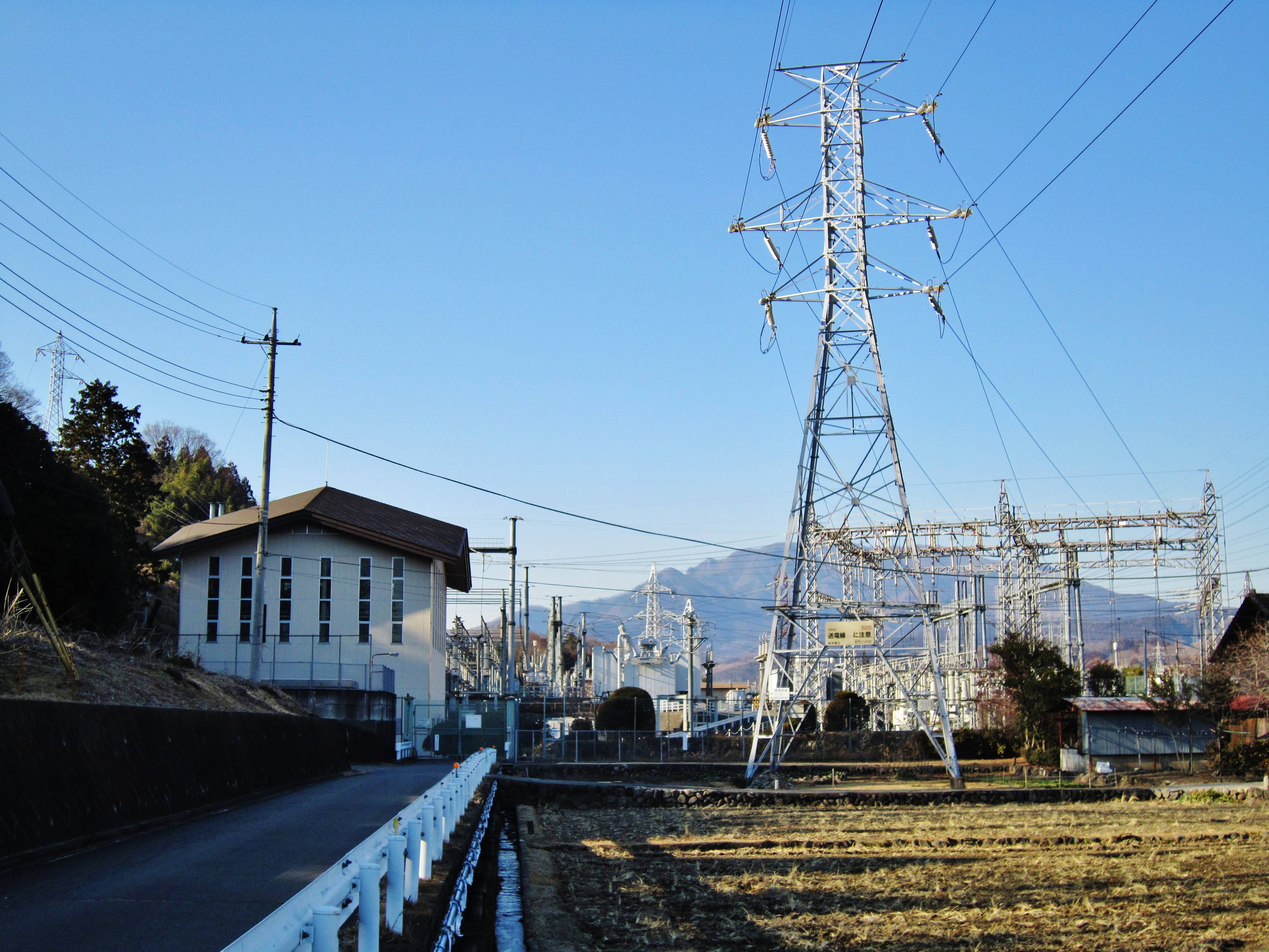 Kanai hydroelectric power station.